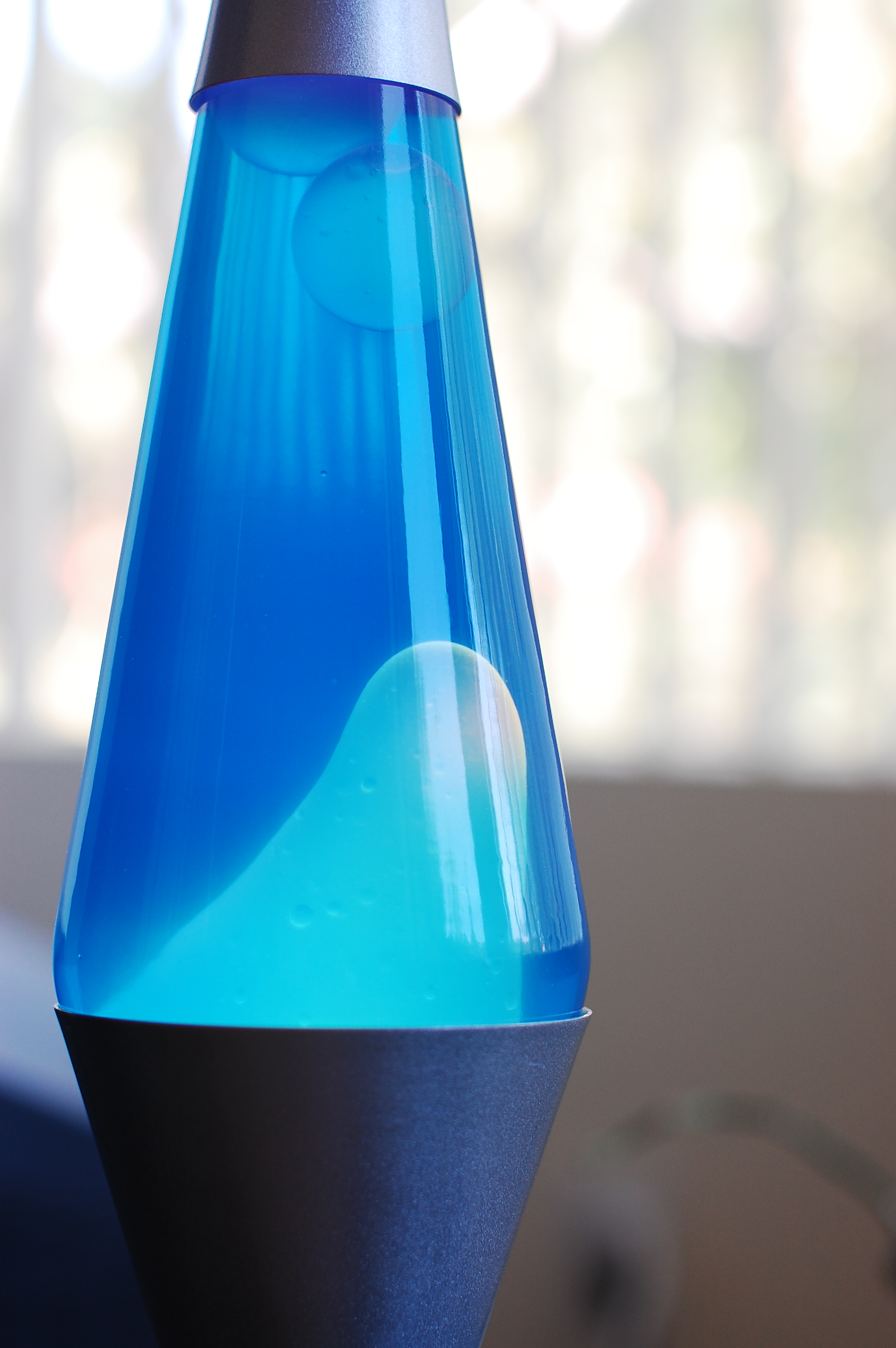 Blue and white